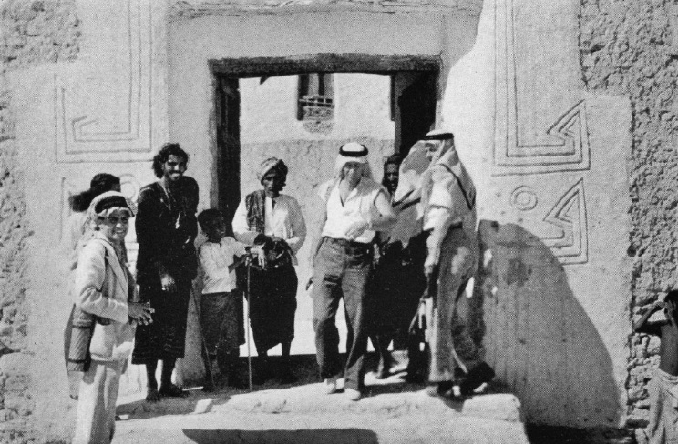 The Sultan of Qishn and Socotra with British explorer et colonial administrator W. H. Ingrams (far right). The Sultan's attire reveals the strong links the ruling and other prominent families of the Hadhramaut long had with the Dutch East Indies and the Malay states, where they owned considerable property. Photo from the second half of the 1930s. Photo's caption: The Sultan of Qishn, accompanied by three Bedouin councilors, is attired in a turban and wears a curved dagger in his belt. Mr. W. H. Ingrams is at the extreme right. Note the Bedouins' well formed features and general attire, especially the sarong, which has been introduced by Hadhrami emigrants returning from the Malay States.